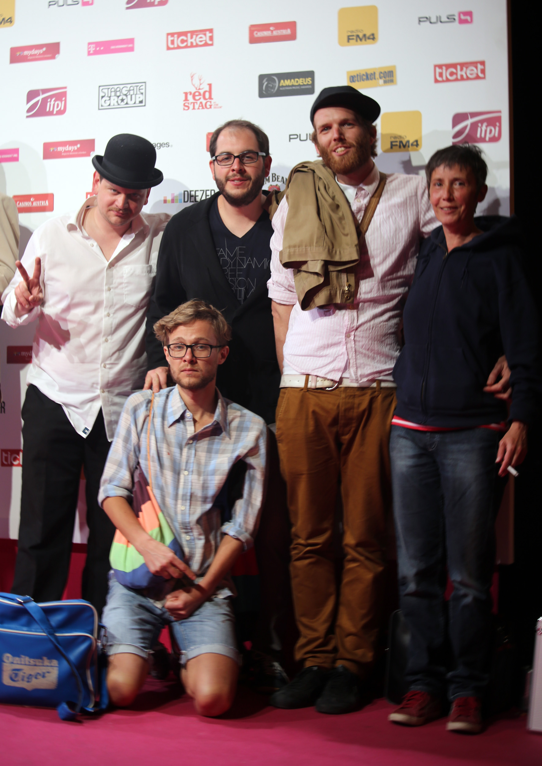 5/8erl in Ehr’n at the Amadeus Austrian Music Award at Volkstheater in Vienna